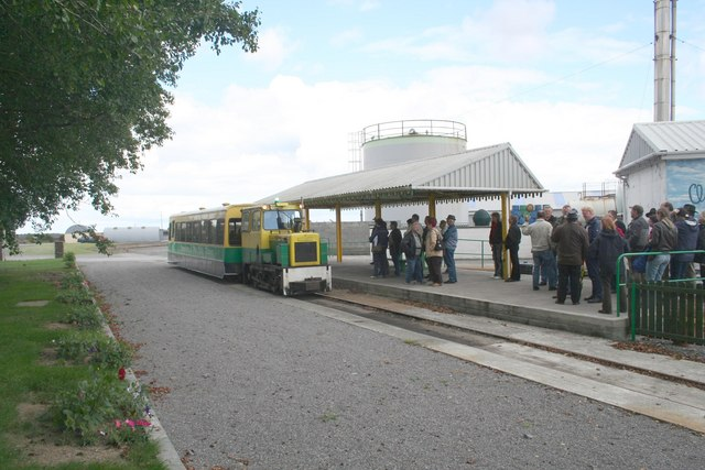 The Clonmacnoise and West Offaly Railway. Taking tourists on a 5.5 mile circular narrow gauge railway tour of the peat harvesting operations of part of the Blackwater Bog.